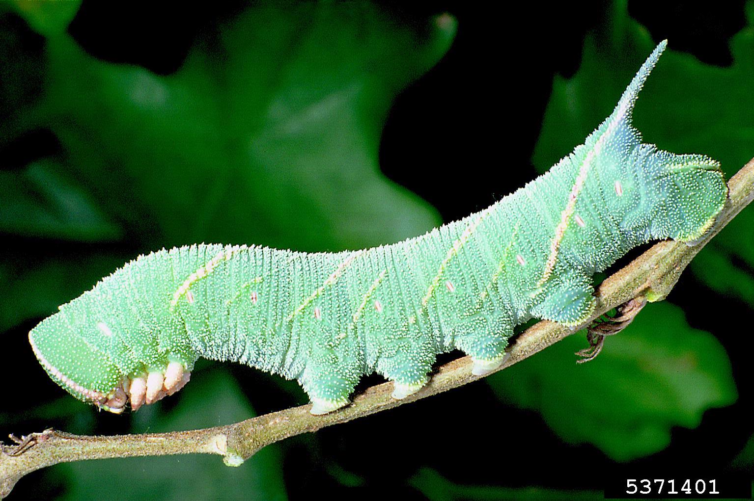 Caterpillar of Marumba quercus